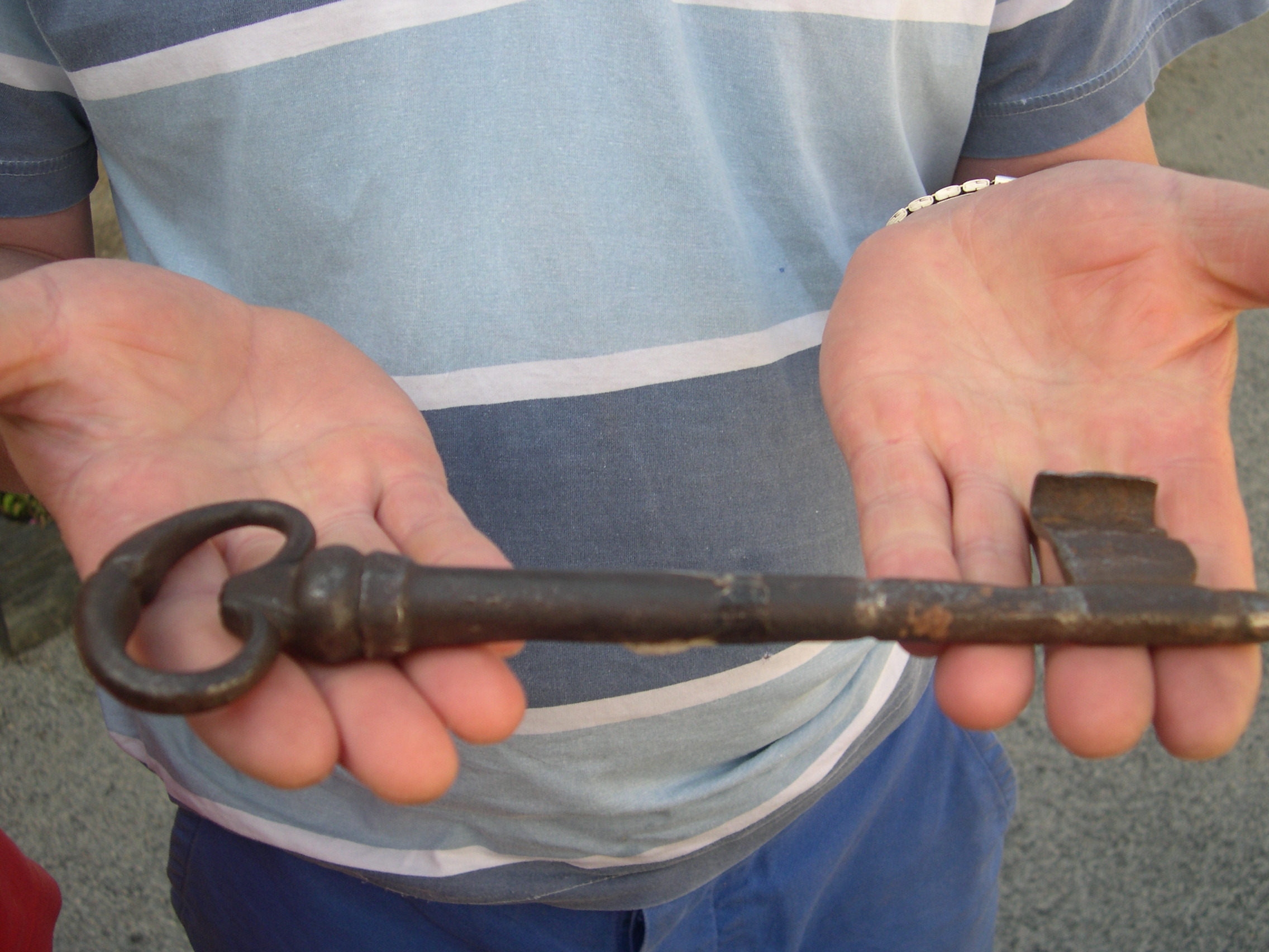 Key of the saint Colomban's chapel in Pluvigner, France.